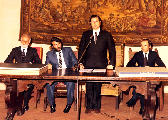 Wahbi al-Hariri-Rifai, far left, at the Palazzo Strozzi at an event organized by Fratelli Alinari who published his book, Traditional Architecture in the Kingdom of Saudi Arabia, in 1981. The book, a full-size hand-printed facsimile edition, is visible on the table far right, spine facing, and far left, spine facing al-Hariri-Rifai.